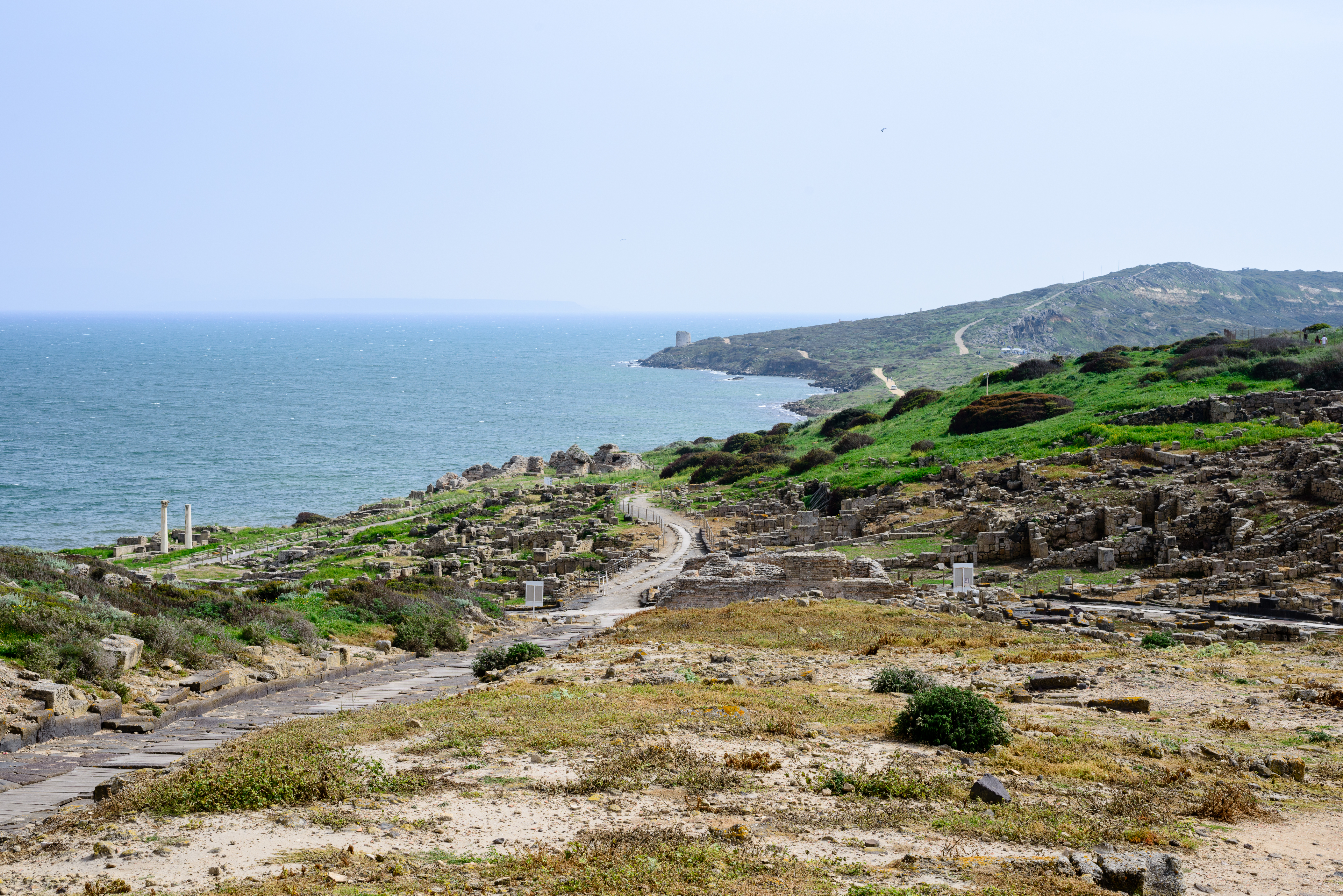 Tharros, ancient city ruins on the west coast, province of Oristano, Sardinia, Italy.